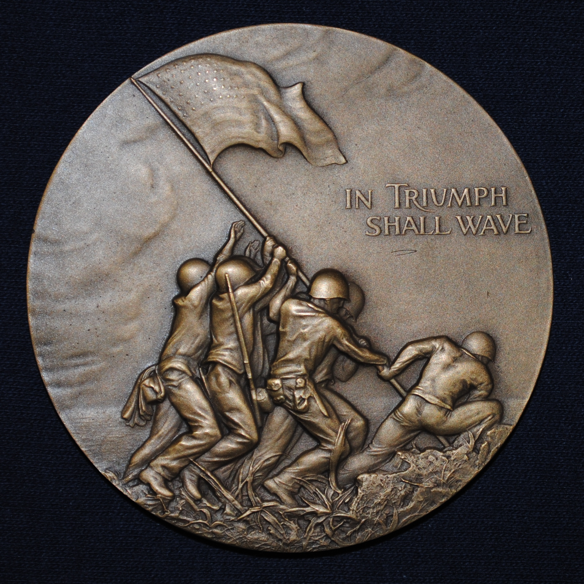 pending